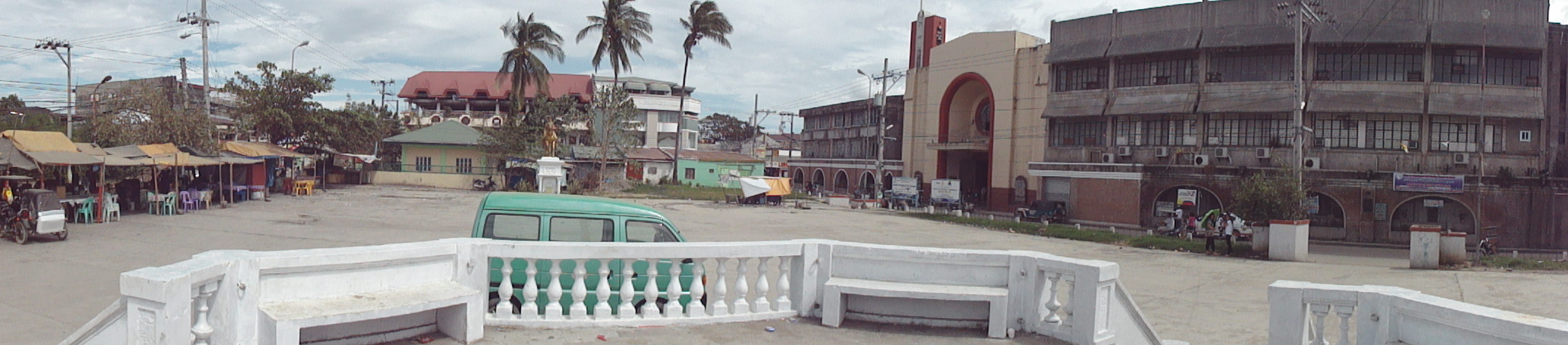 Plaza Lucero